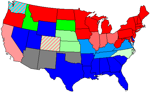 Summary of party control of U.S. house seats in the 55th United States Congress following election. Stripes indicate a tie between two or more parties. Legend: 80.1-100% Democratic seat majority 60.1-80% Democratic seat majority 60% or less Democratic seat plurality 60% or less Republican seat plurality 60.1-80% Republican seat majority 80.1-100% Republican seat majority 60% or less Populist seat plurality 60.1-80% Populist seat majority 80.1-100% Populist seat majority